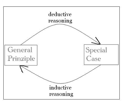 inductive and deductive reasoning